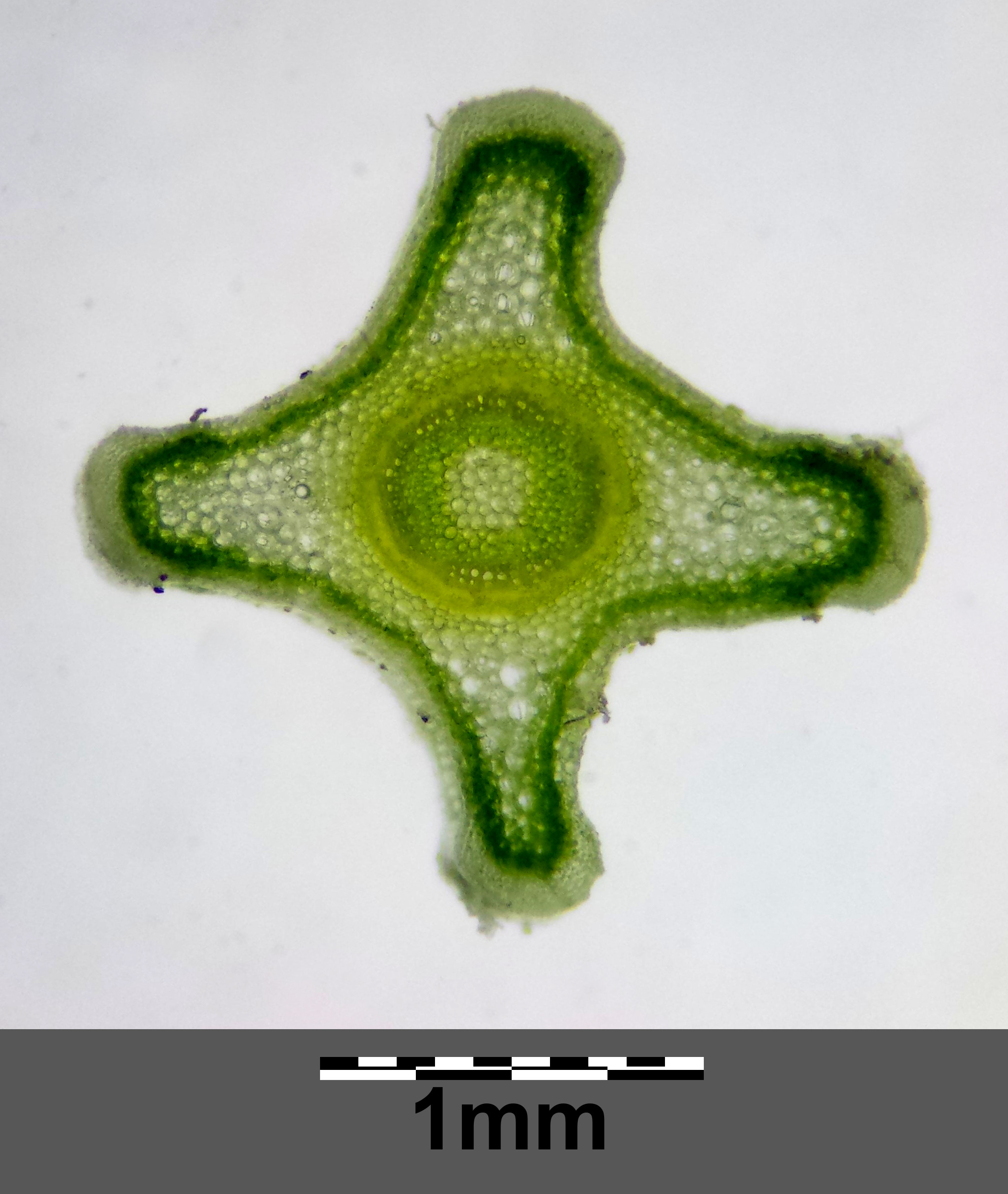 Stipe (sliced) Taxonym: Galium odoratum ss Fischer et al. EfÖLS 2008 ISBN 978-3-85474-187-9 Location: Rohrwald, district Korneuburg, Lower Austria - ca. 300 m a.s.l. Habitat: Carpinion betuli